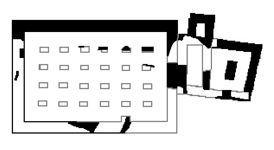 Plan of the Wawel palatium acc. to Z. Pianowski and J. Firlet after verification research with a marked fragment of the low wall in the south wall. Reconstruction upheld the concept of the “hall with 24 pillars”. Source: J. Firlet, Z. Pianowski, Transformations in Architecture of the Royal Residence and the Wawel Cathedral in the light of new research, Architecture and Urban Planning Quarterly, Vol. XLIV, No. 4, Wrocław 2000